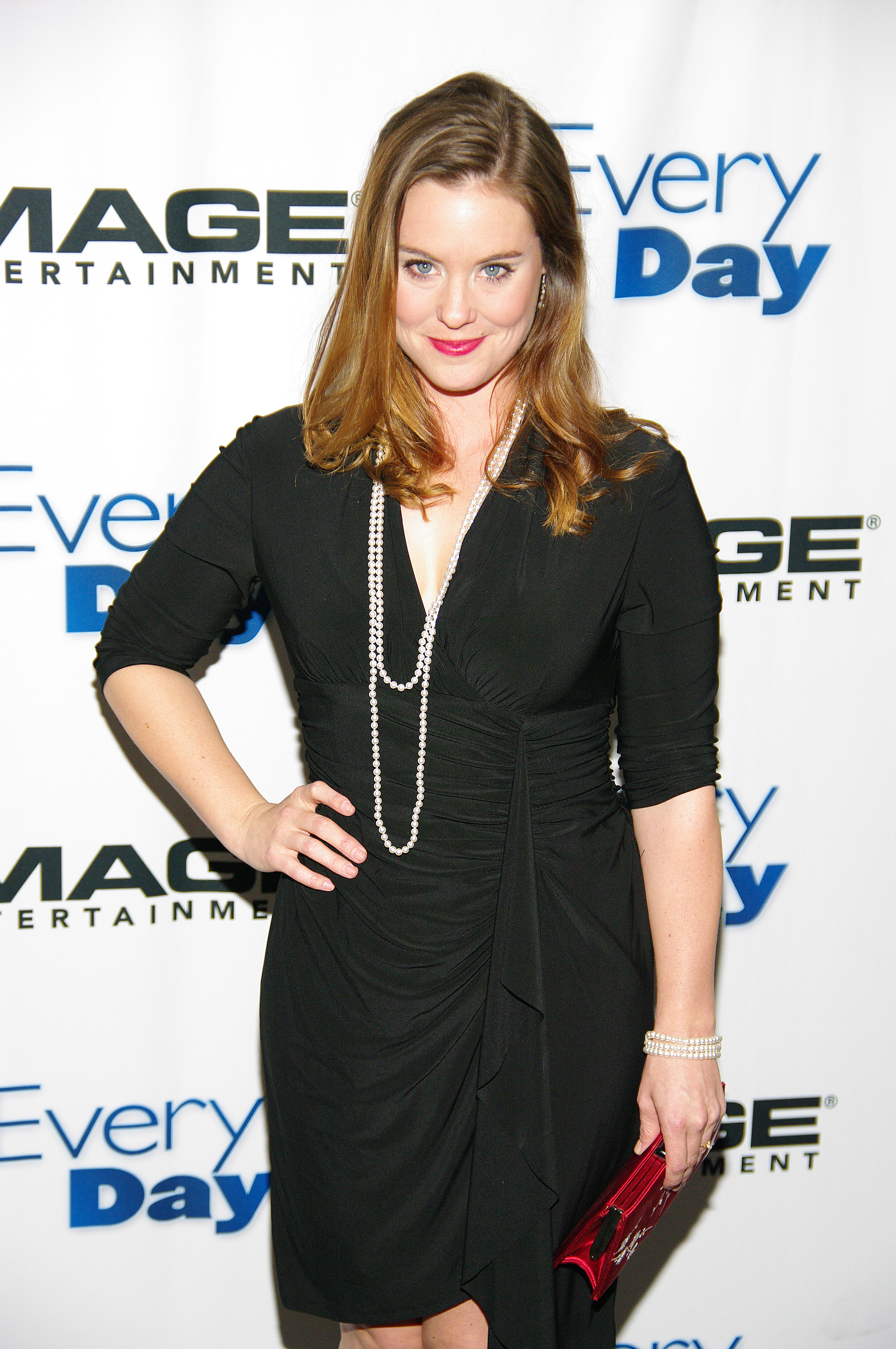 Ashley Williams arrives at the Los Angeles premiere of 'Every Day' held at the Landmark Theater in Los Angeles, California. January 11, 2011.